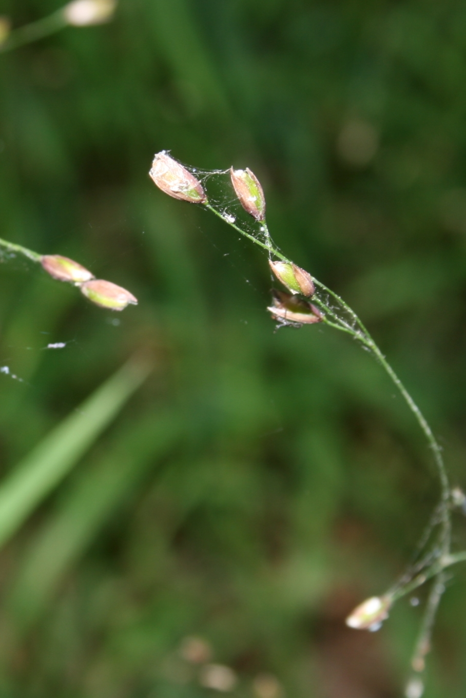 Melica uniflora: Flowers